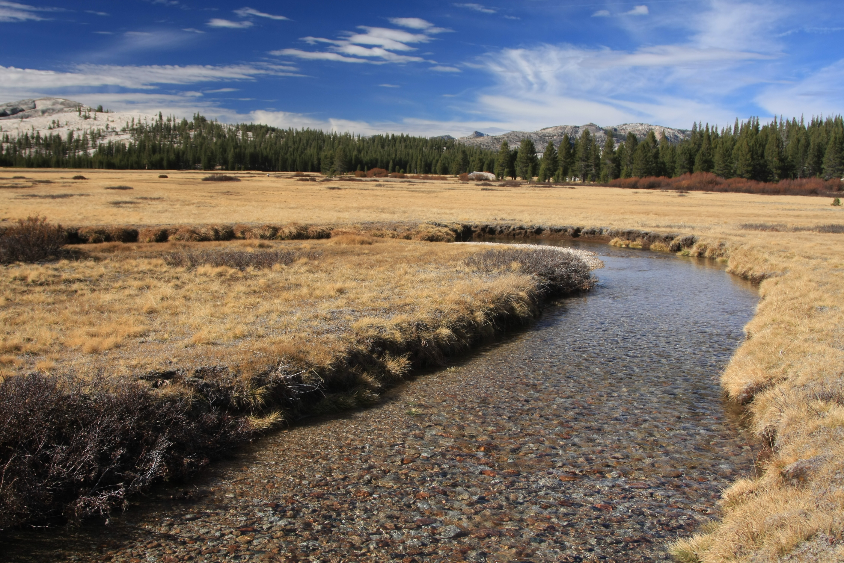 A meandering river in Tuolumne Meadows in Autumn.